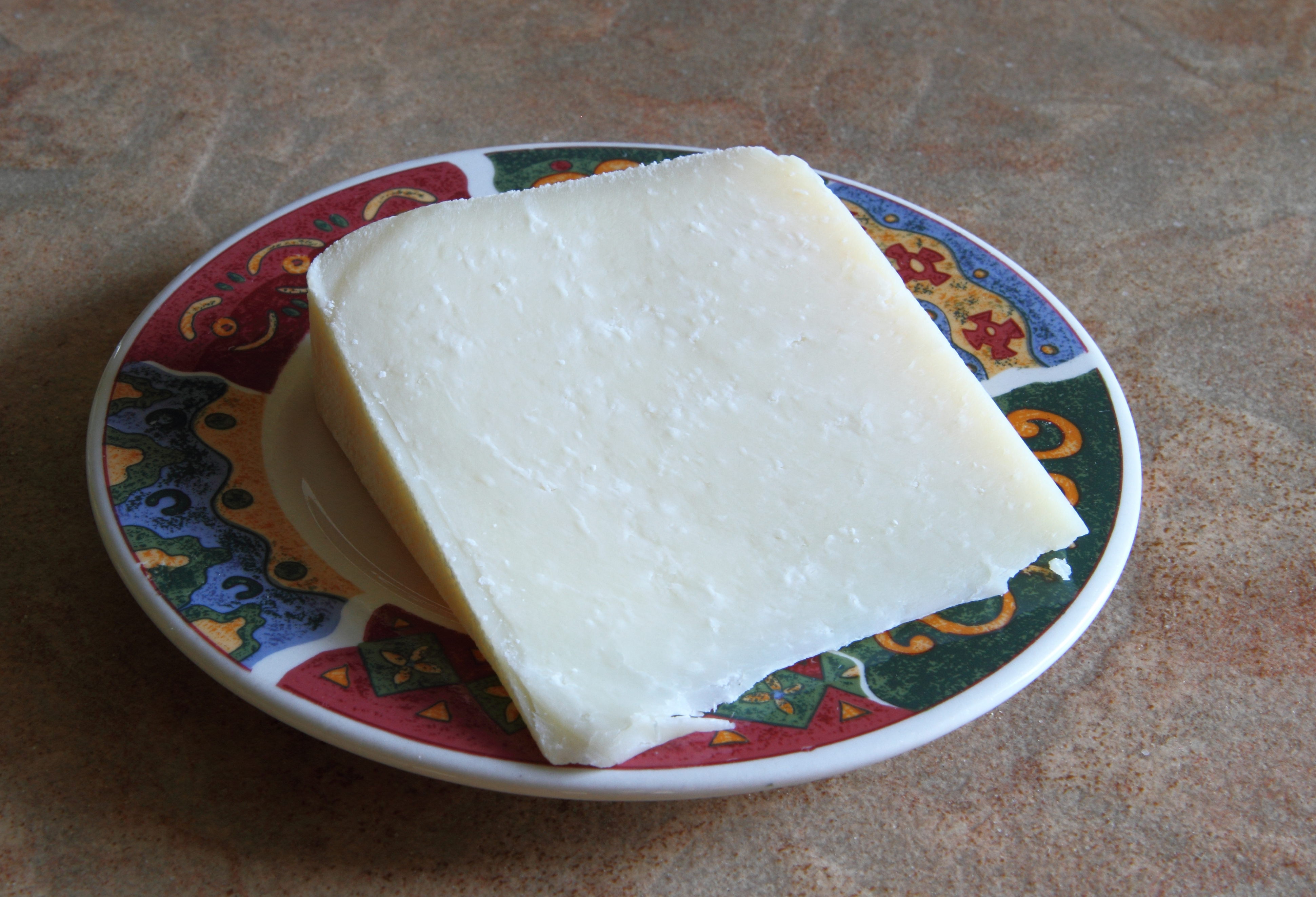 The Tomme des Demoiselles is a cheese made in Magdalen Islands, Quebec